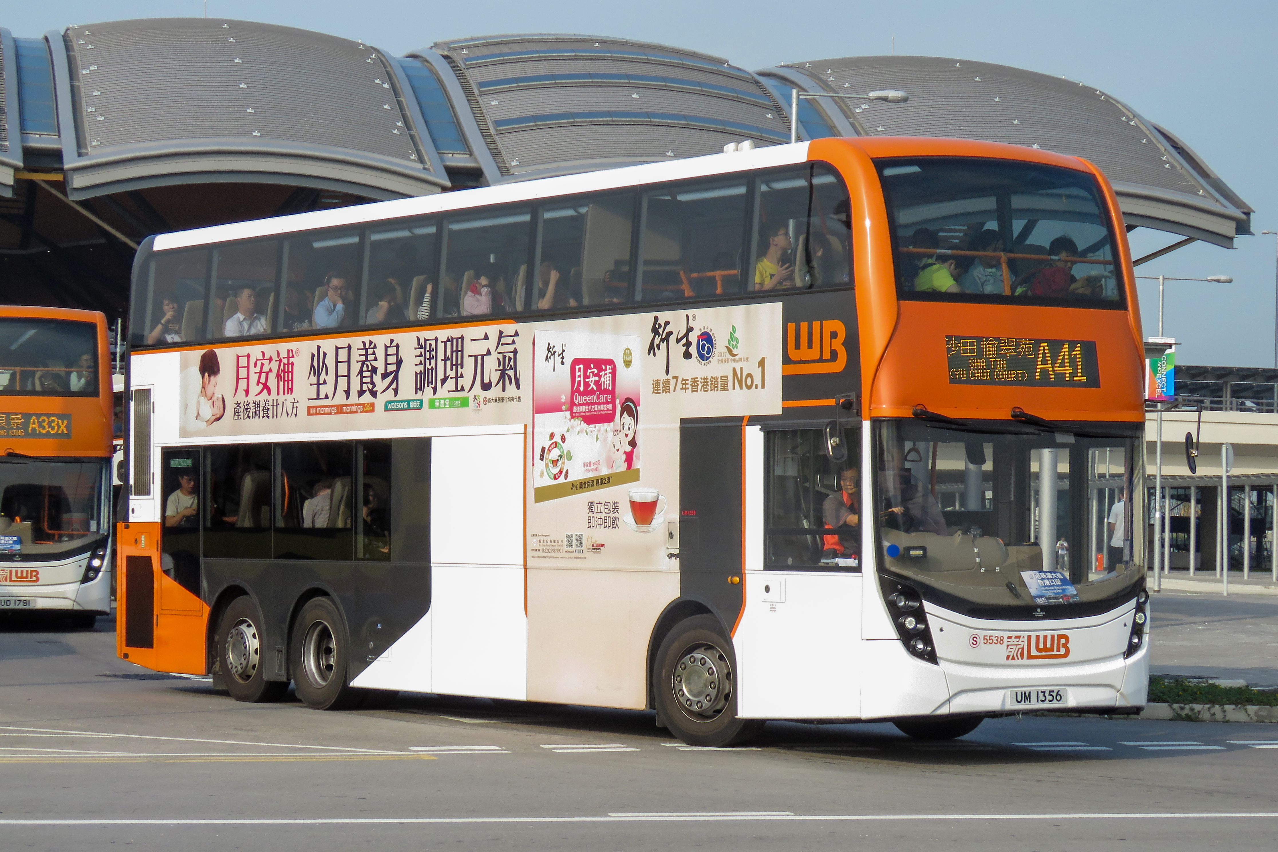 This one also has Hin Sang banners...